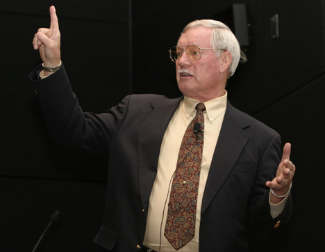 Former Air Force Colonel speaking to students inside Texas A&M University's George Bush Presidential Library and Museum Orientation Theater